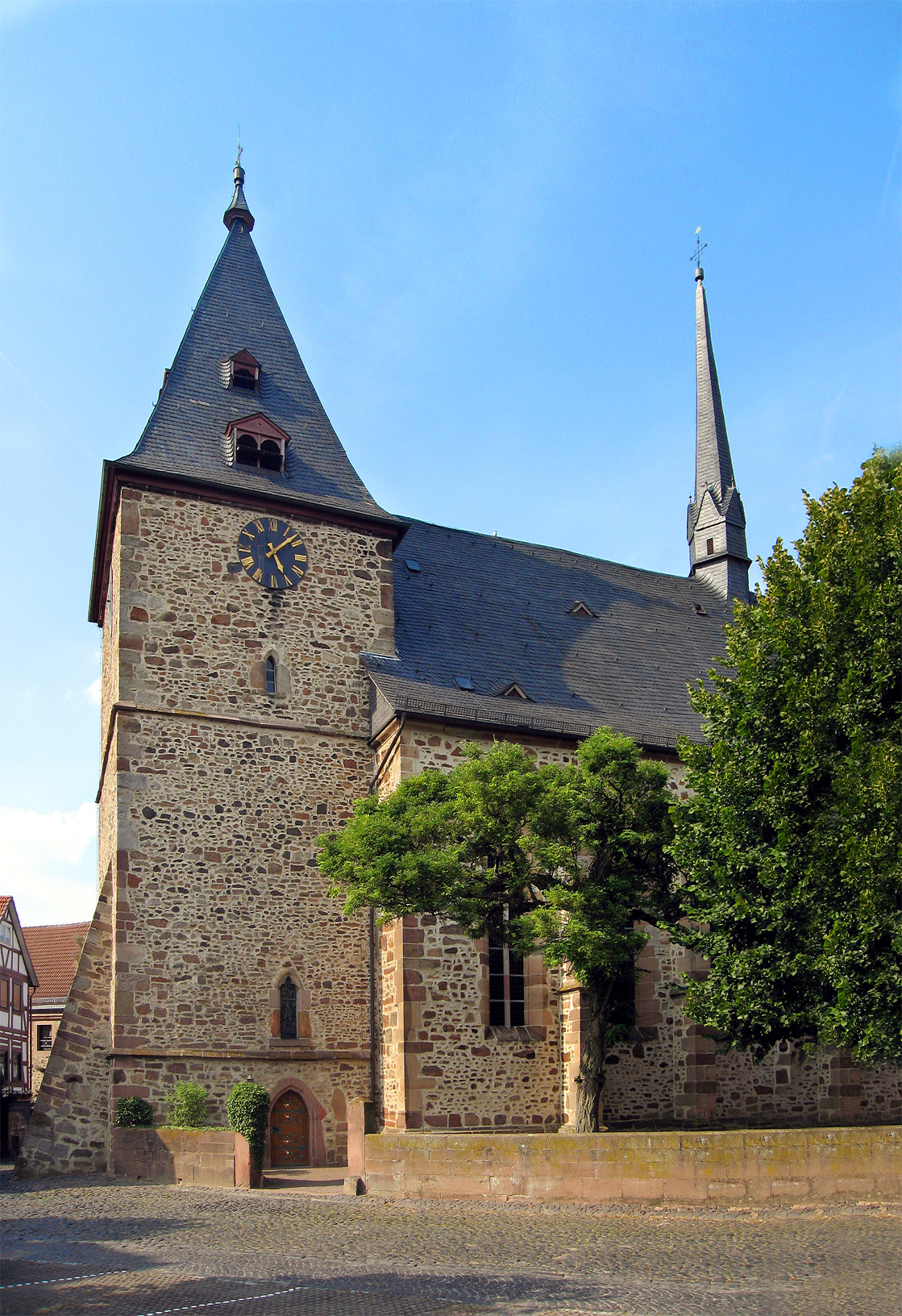 The trinity church in Neustadt. It is buid in 1502.